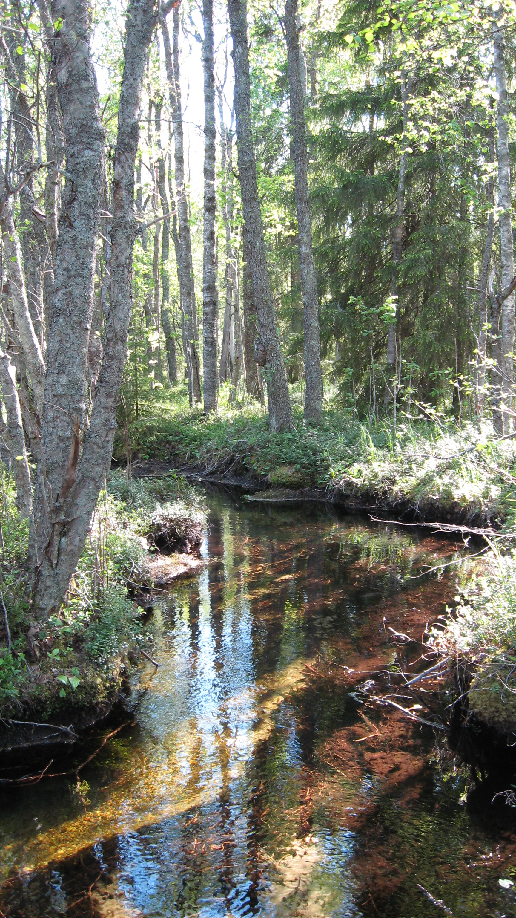 A stream in Lauhanvuori National Park, Isojoki, Finland.